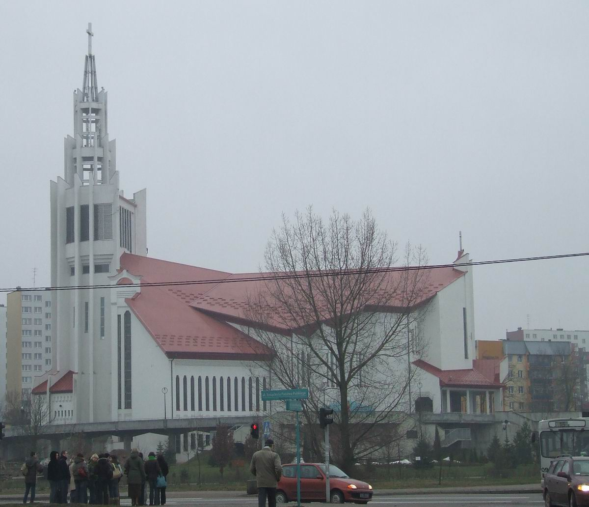 Sanctuary of Divine Mercy in Białystok